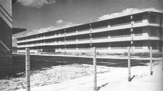 Barracks for Civilian Housing, Marine Corps Air Station, Ewa